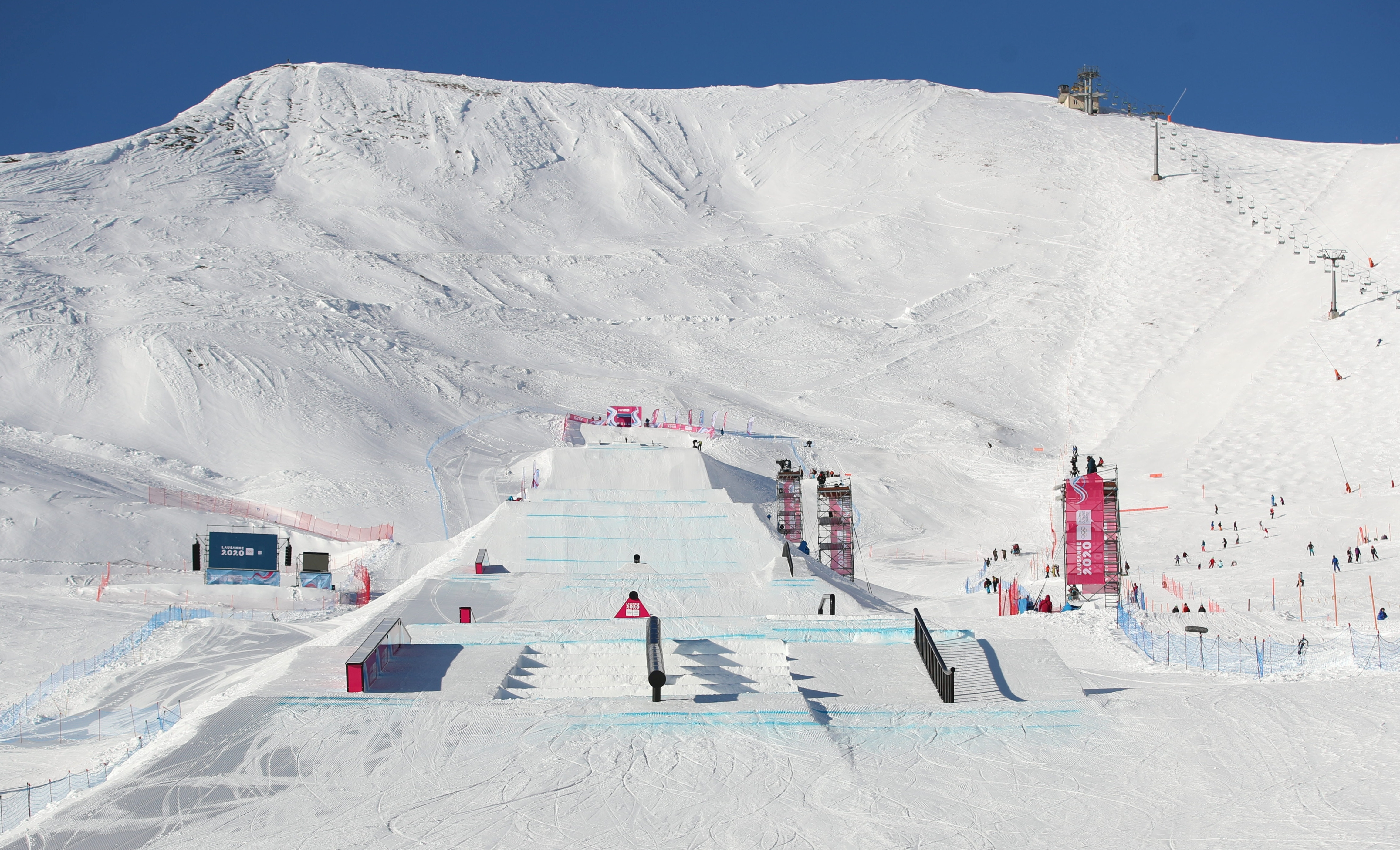 Mascot Ceremony of Snowboarding – Men's Slopestyle at the 2020 Winter Youth Olympics in Lausanne on 20 January 2020.